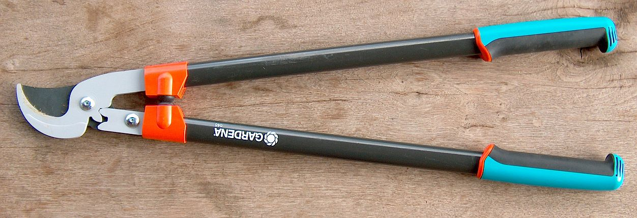 Gardena loppers